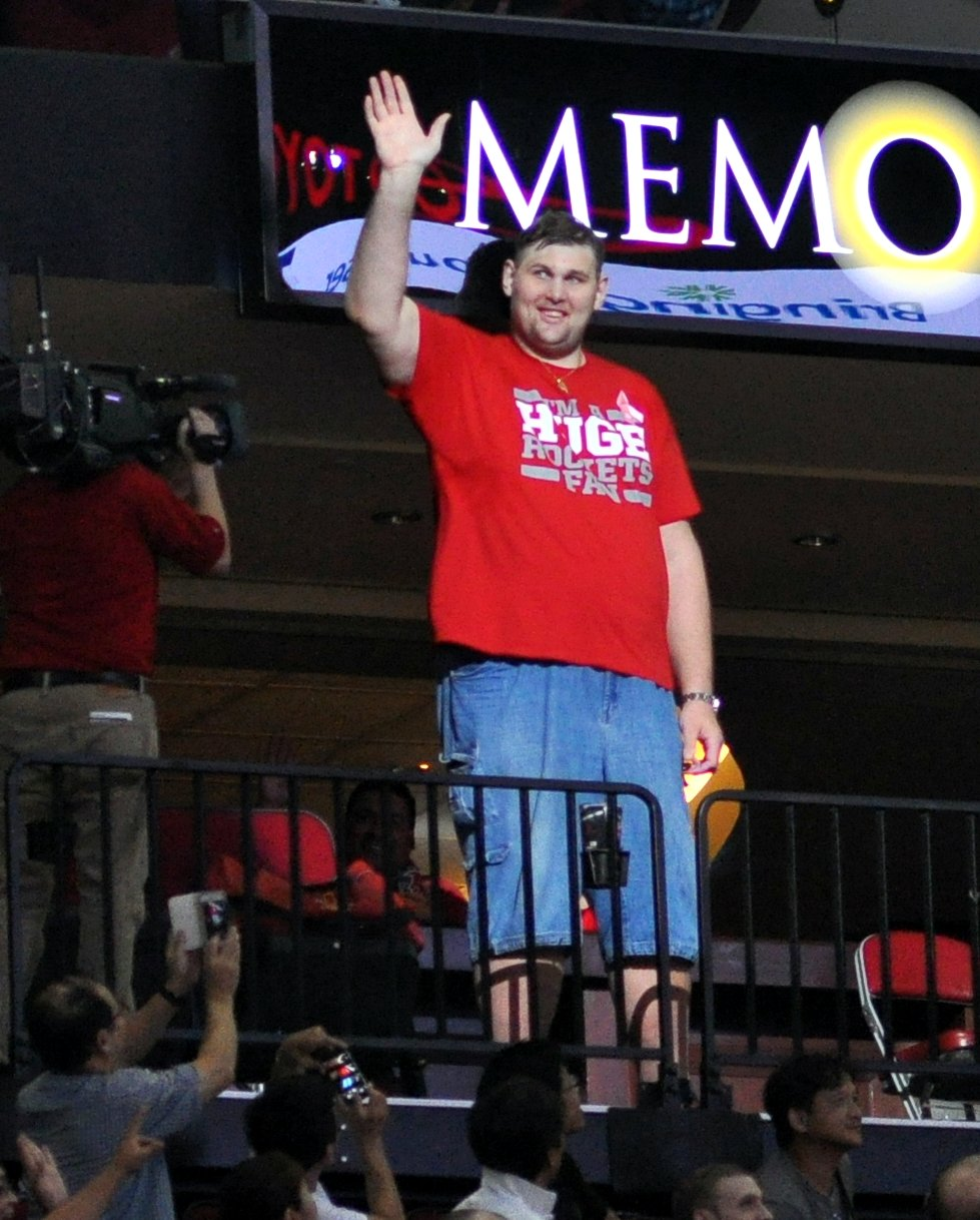 Igor Vovkovinskiy, the tallest person in the United States, waves after being introduced to the crowd at an NBA preseason basketball game between the Houston Rockets and the New Orleans Pelicans, Oct. 5, 2013, at the Toyota Center in Houston, Texas.